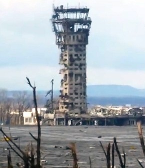 Ruins of Donetsk Sergey Prokofiev International Airport, December 24, 2014.